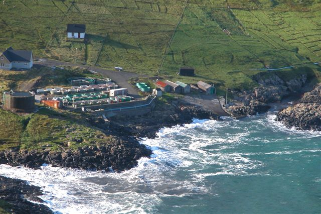 The harbour of Víkarbyrgi